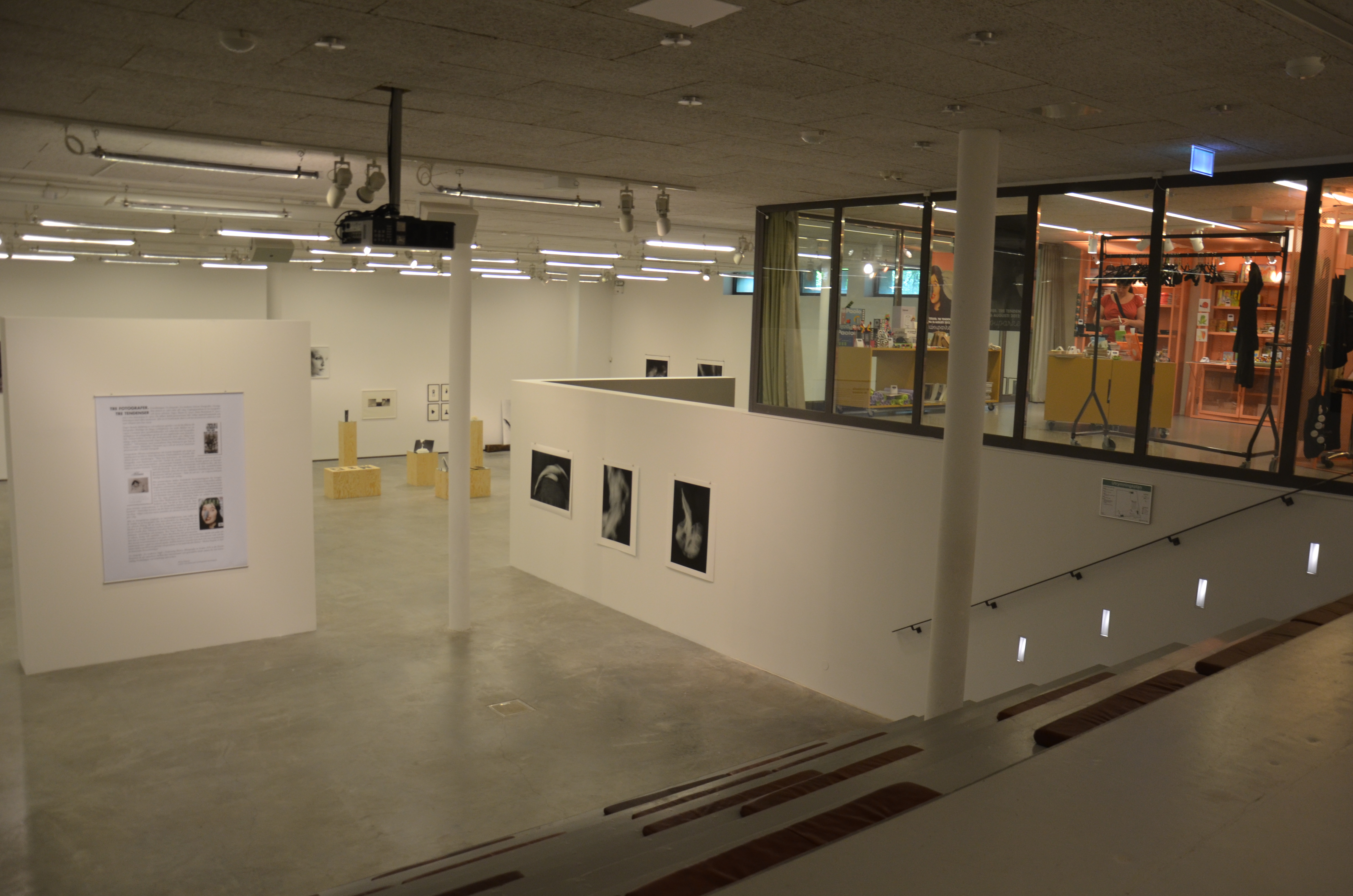 Marabouparkens konsthall